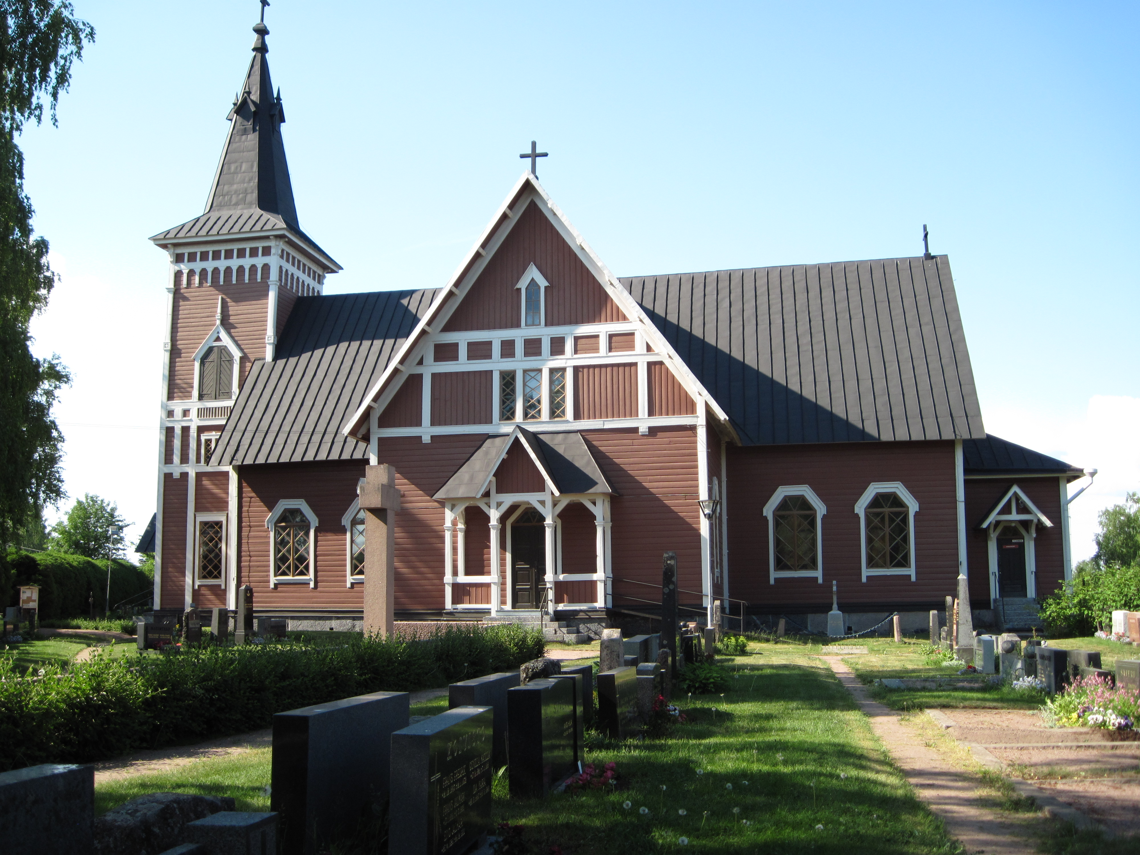 Vampula Church in Vampula, Huittinen, Finland